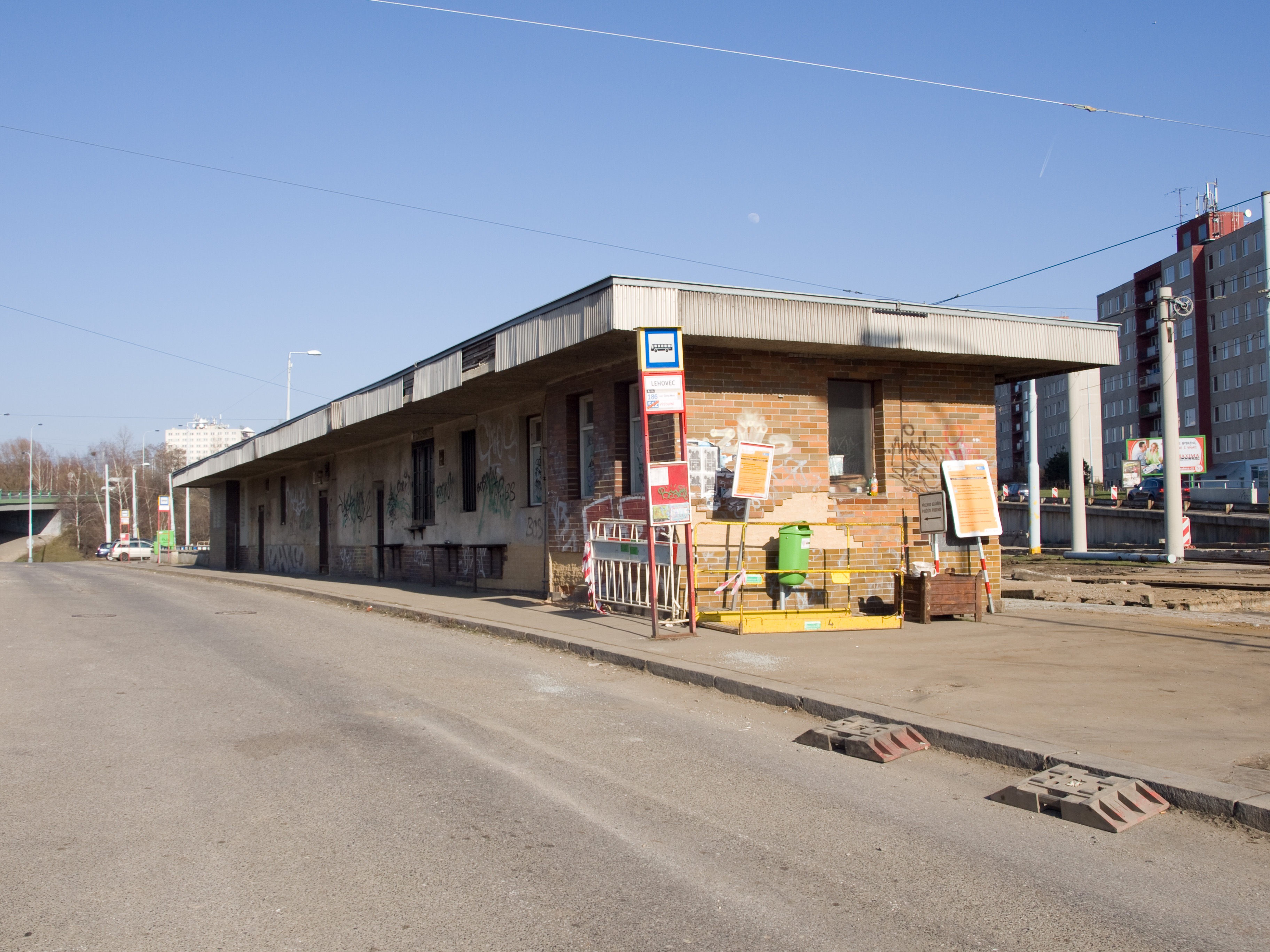 Lehovec tram loop, Reconstruction of tram track Starý Hloubětín – Lehovec, Prague 14